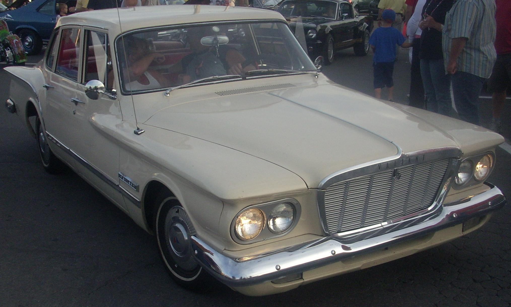 Plymouth Valiant photographed in Montreal, Quebec, Canada at Gibeau Orange Julep